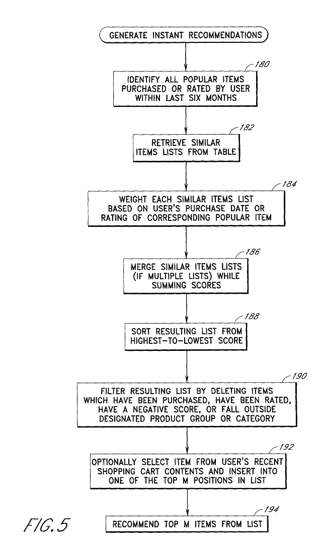 A flow chart displaying the algorithm behind a recommendation engine.